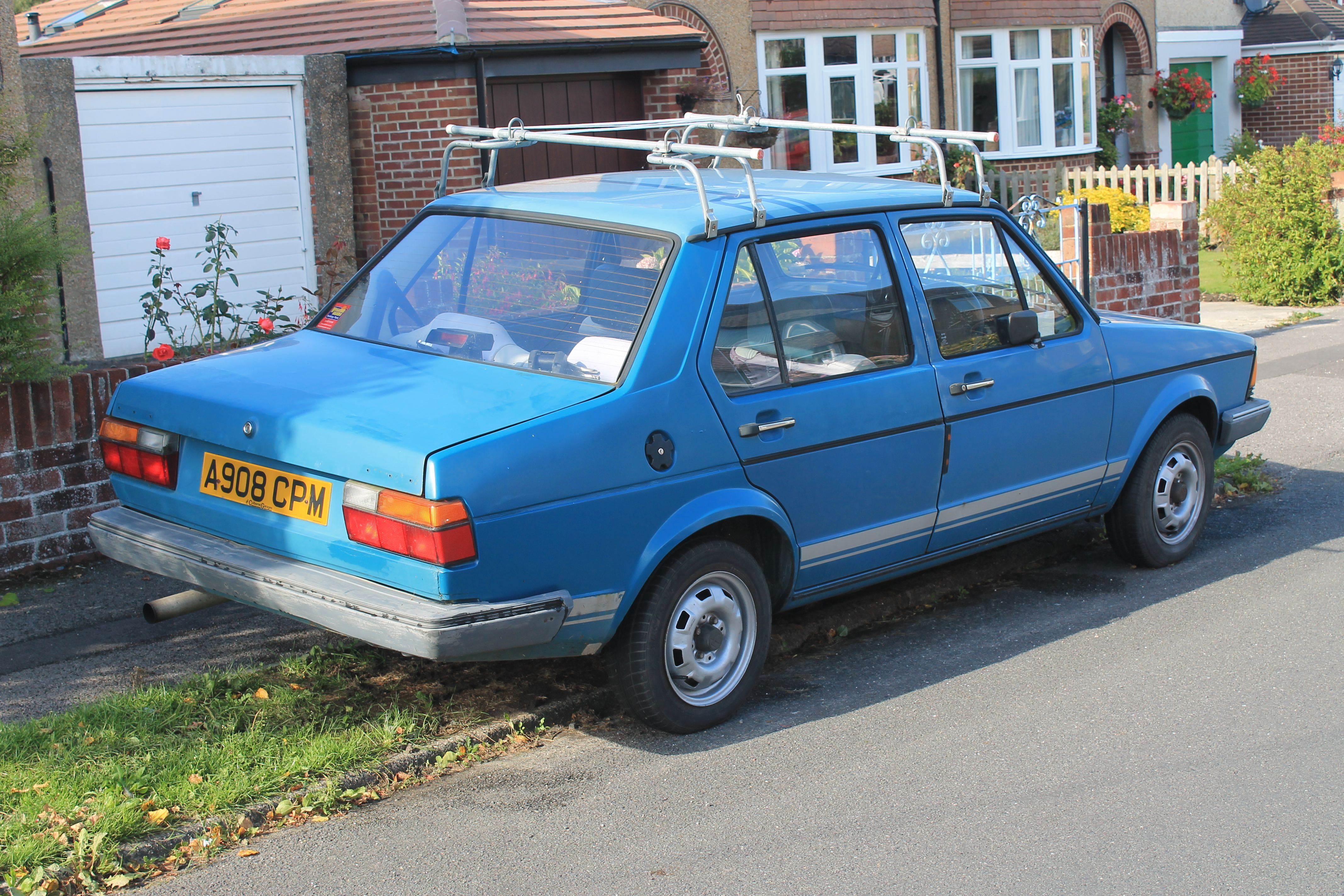 This tired and hard working car is actually extremely rare now. It's a 1983 A reg Volkswagen Jetta 1.5 CL Auto. It's getting very difficult to spot old Jettas nowadays, and this thirty year old example is now just one of two left licenced! You can tell it's a worker due to the roofrack and faded appearance! I wonder if the owner knows how rare his car is?! The vehicle details for A908 CPM are: Date of Liability 01 01 2014 Date of First Registration 12 08 1983 Year of Manufacture 1983 Cylinder Capacity (cc) 1457cc CO₂ Emissions Not Available Fuel Type PETROL Export Marker N Vehicle Status Licence Not Due Vehicle Colour BLUE Vehicle Type Approval Not Available Vehicle Excise Duty rate for vehicle 6 Months Rate £77.00 12 Months Rate £140.00 It's a shame the badges have been removed for some reason.